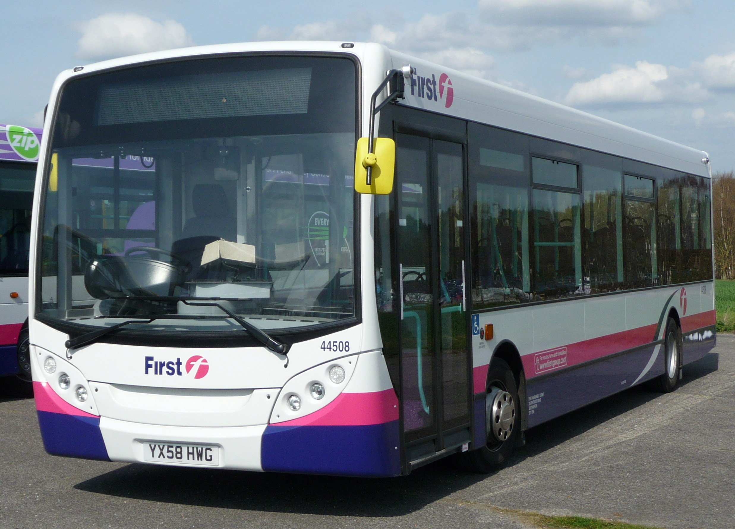 First Hampshire & Dorset's 44508 (YX58 HWG), an Alexander Dennis Enviro200 Dart, at the 2009 Cobham bus rally at Wisley Airfield. It is seen before it gained its branding for route 16.